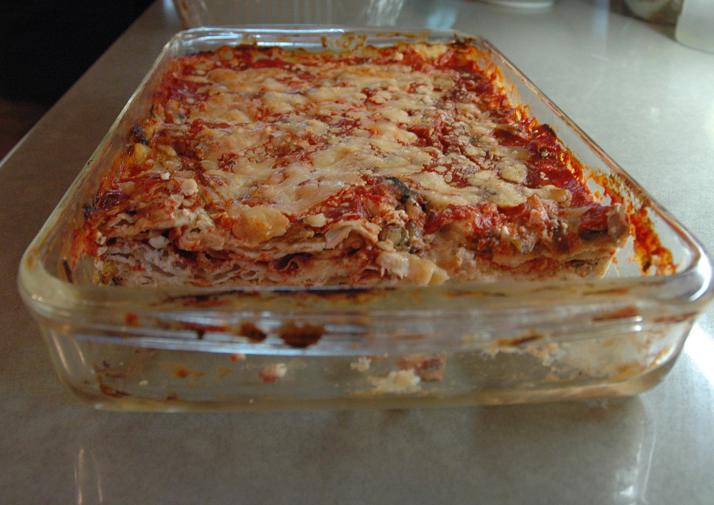 Kosher for Passover lasagne, made with matza